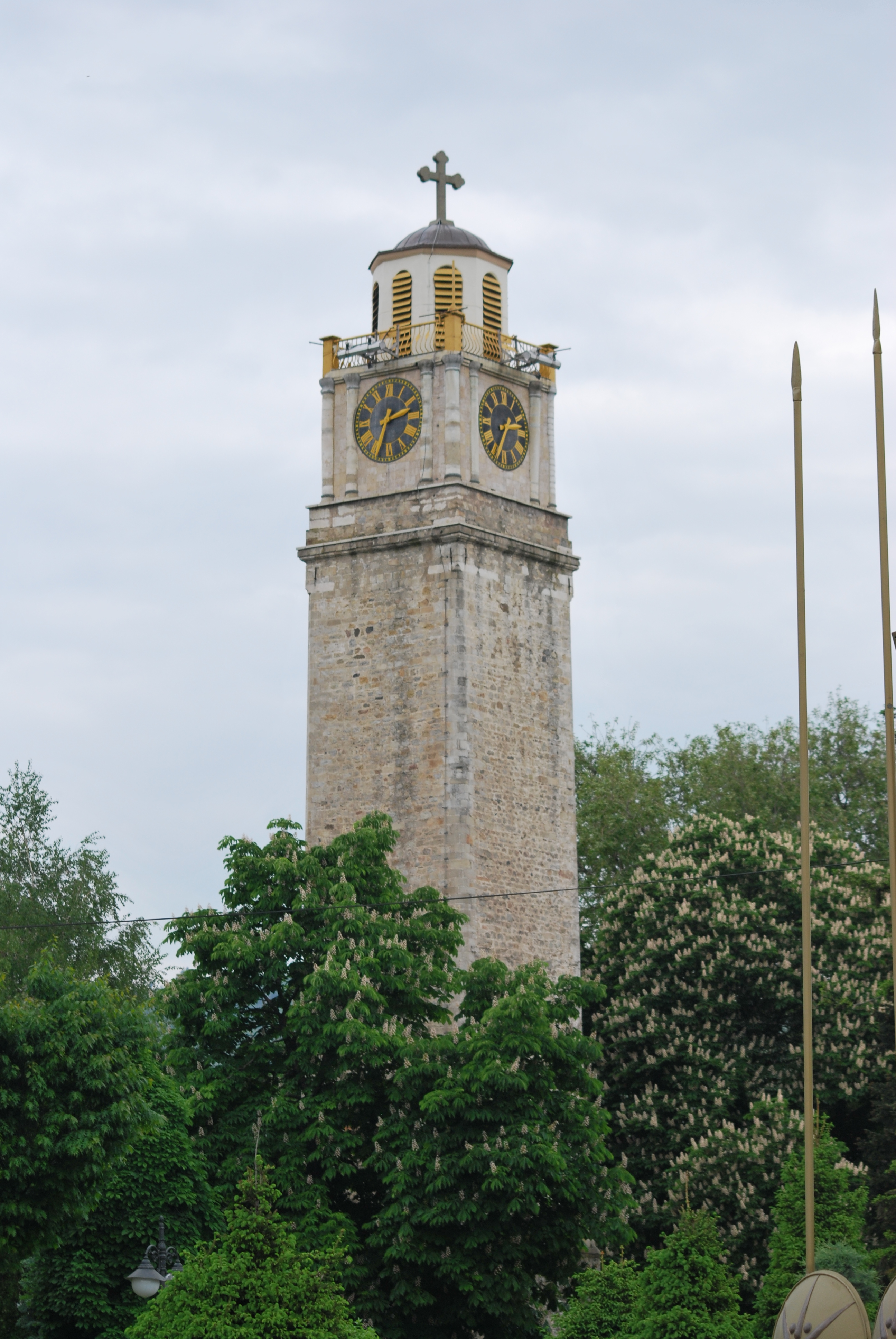 Clock tower in Bitola, Macedonia